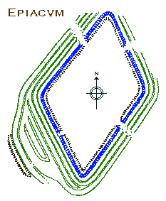 Plan of Epiacum Roman fort (Whitley Castle), the only such fort with a skewed (lozenge shaped) outline, and the only one with such elaborate ramparts outside the wall. From The Archaeology of Roman Britain, by R.G. Collingwood (fig.10a, p.45).